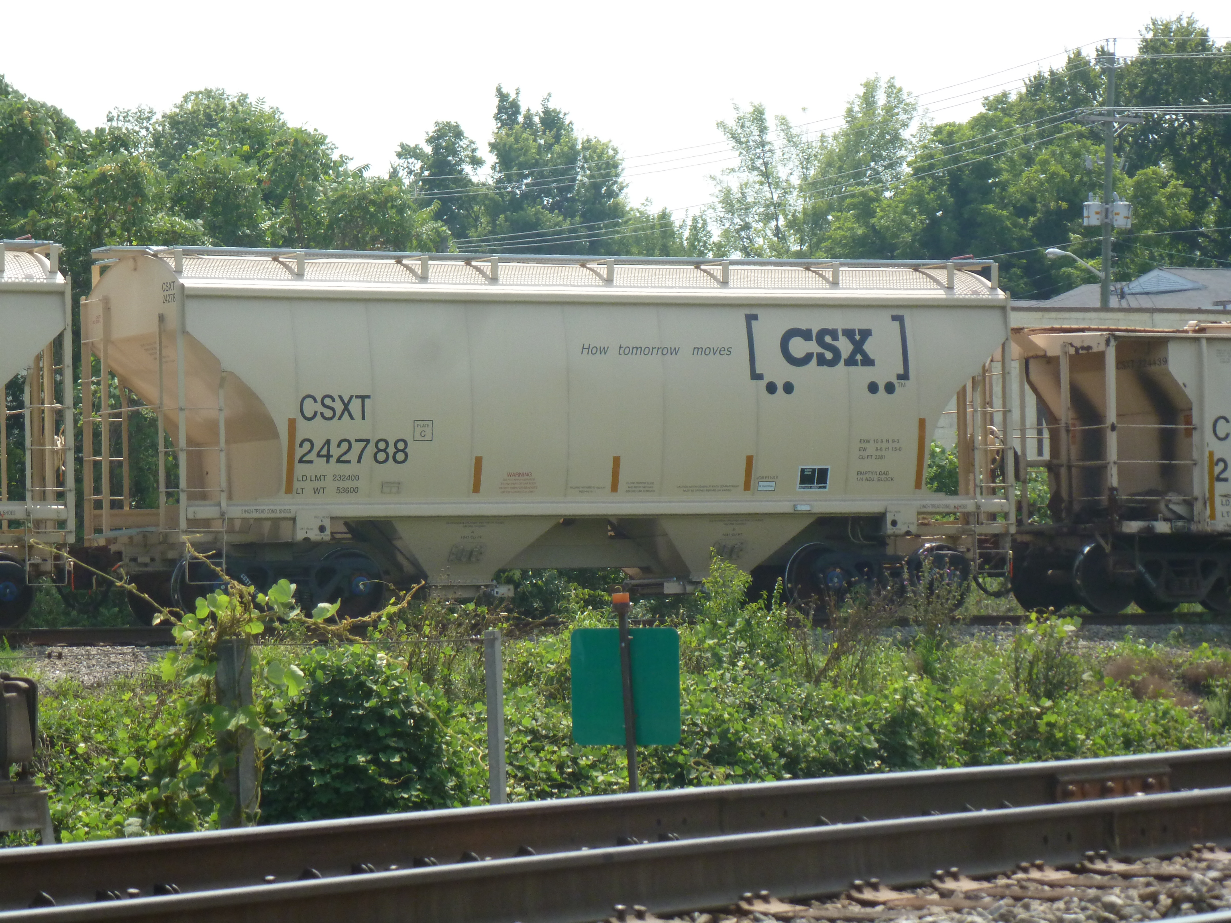 A CSX hopper sits at a siding in Knoxville,Tennessee